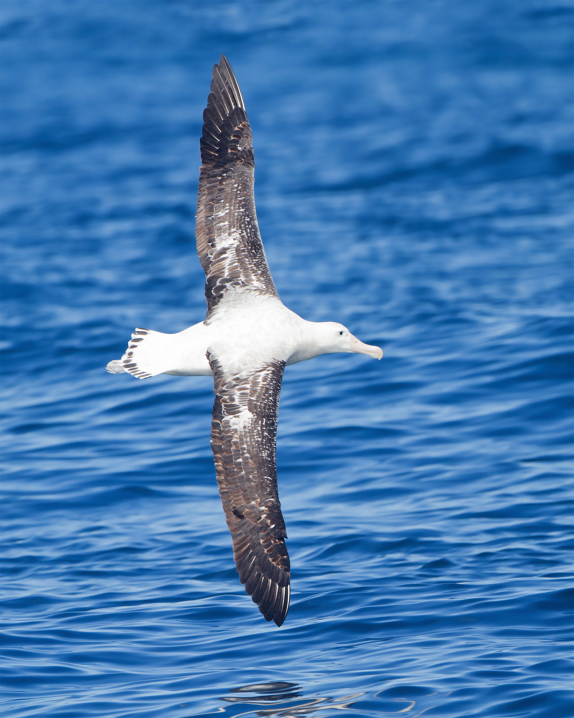 Wandering Albatross (Diomedea exulans) in flight, East of the Tasman Peninsula, Tasmania, Australia